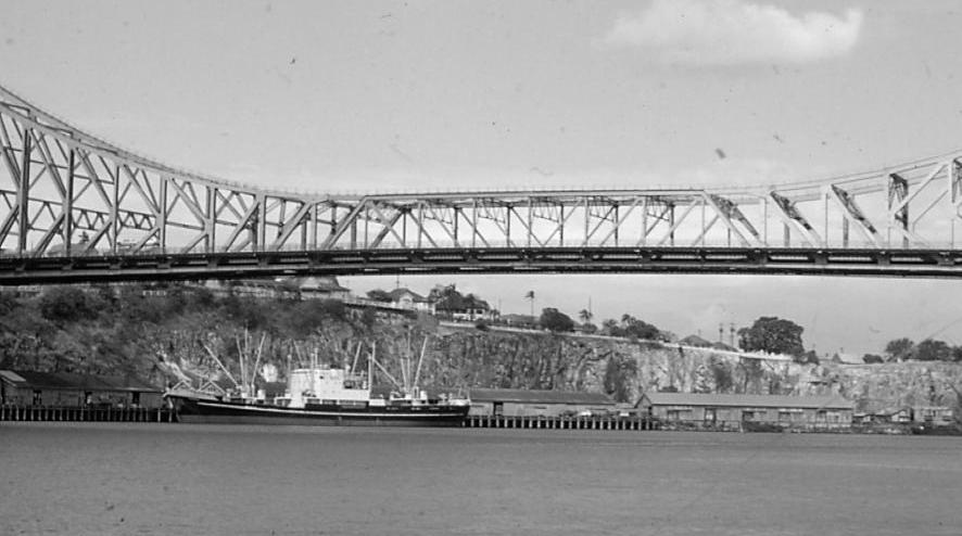 Howard Smith Wharves, 1958, City Archives, Brisbane City Council